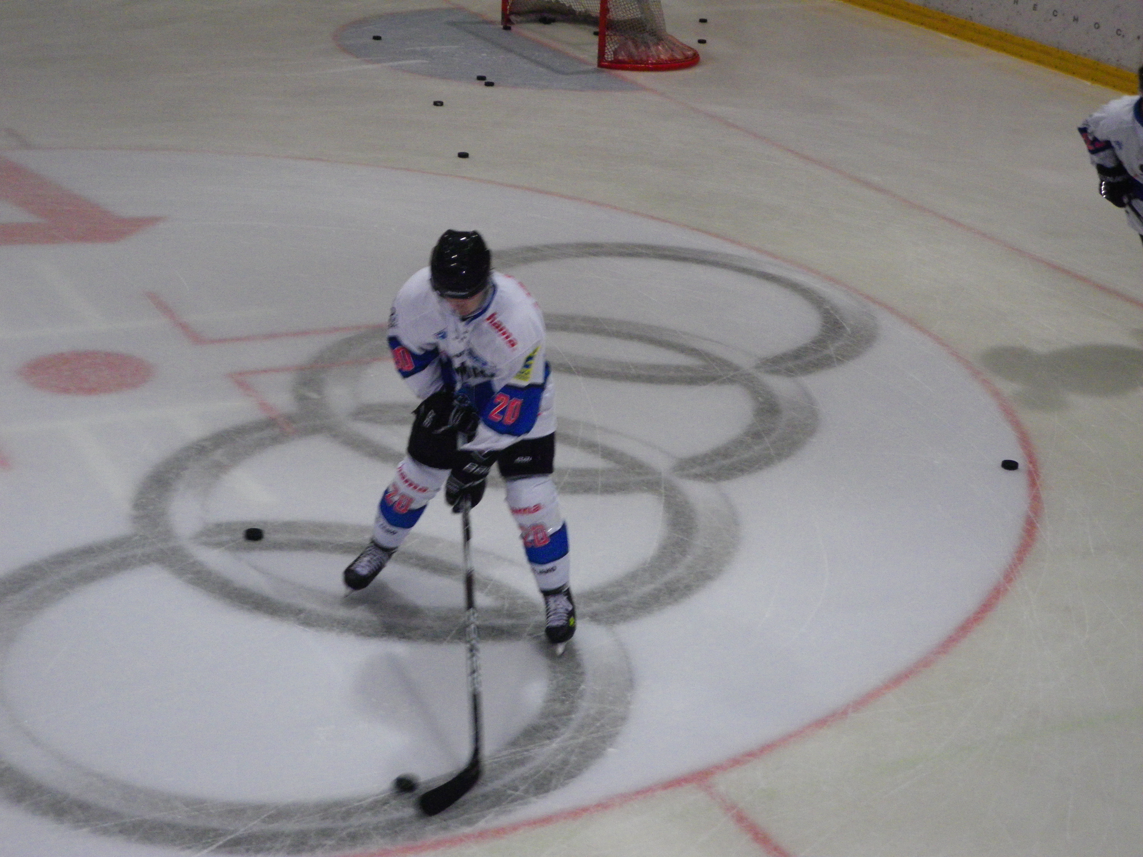 Norman Martens, german ice hockey player with ERC Ingolstadt